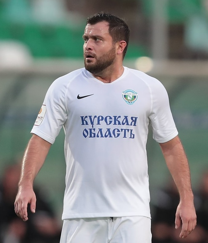 Alan Kasaev with FC Avangard Kursk in a game against FC Torpedo Moscow.